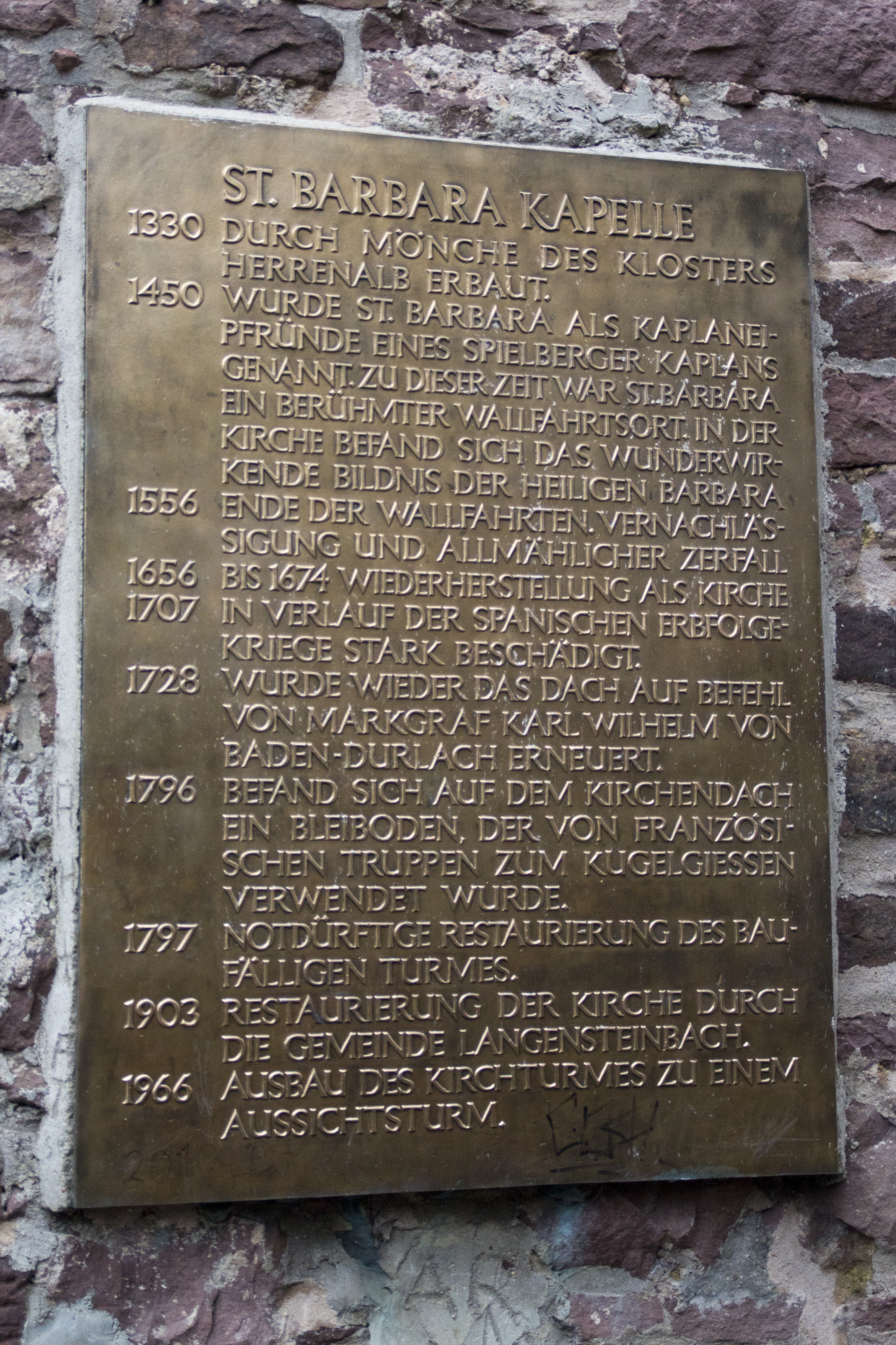 A plaque describing the history of the ruins of St. Barbara's Chapel in Karlsbad, Baden-Württemberg.